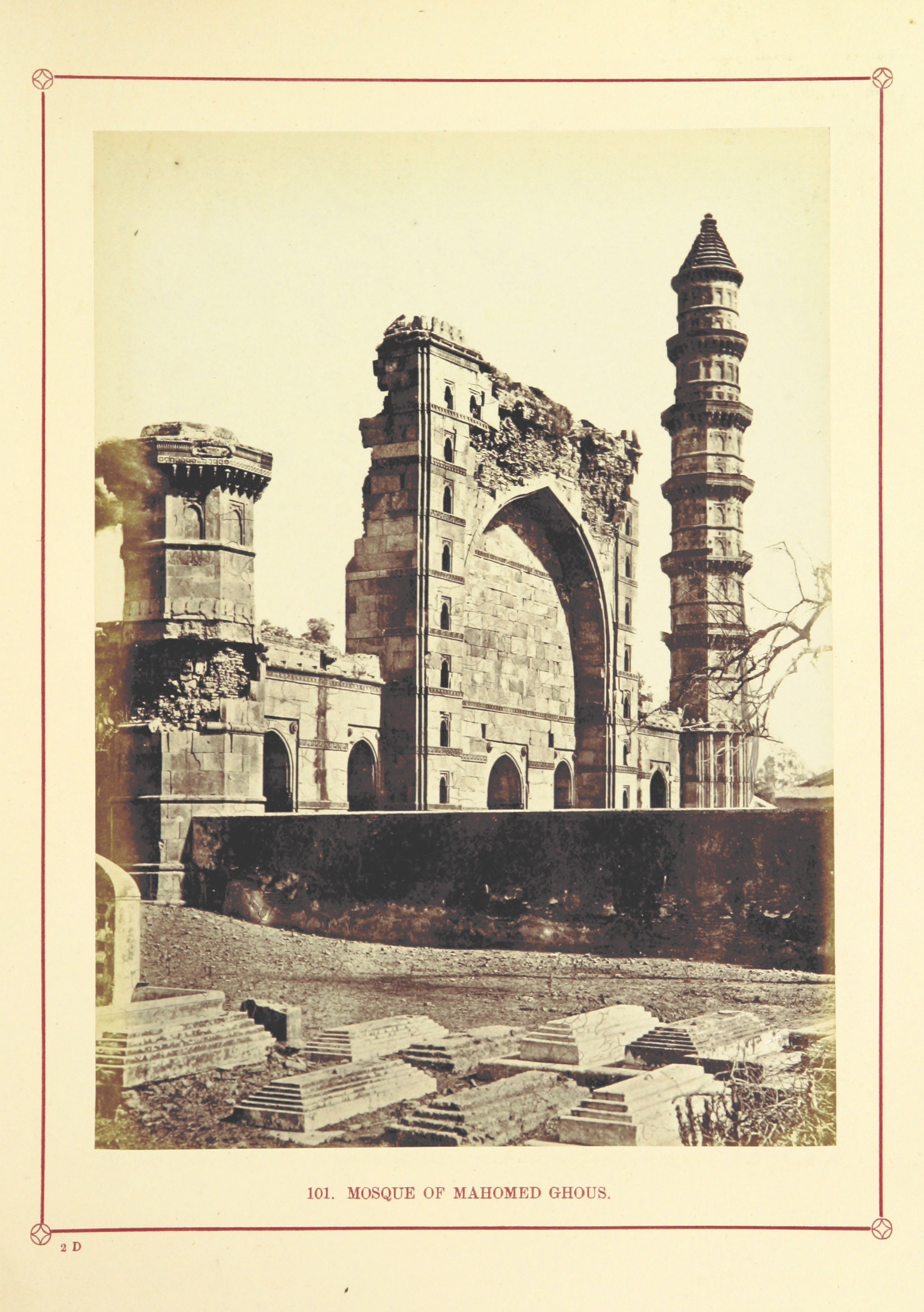 Image taken from: Title: "Architecture at Ahmedabad, the Capital of Goozerat, photographed by Colonel Biggs, ... With an historical and descriptive sketch, by T. C. H., ... and architectural notes by J. Fergusson, etc" Author: HOPE, Theodore Cracraft - Sir, K.C.S.I Contributor: BIGGS, Thomas. Contributor: FERGUSSON, James - Architect Shelfmark: "British Library HMNTS 10057.f.17.", "British Library OC V 6665" Page: 327 Place of Publishing: London Date of Publishing: 1866 Issuance: monographic Identifier: 001730119 Note: The colours, contrast and appearance of these illustrations are unlikely to be true to life. They are derived from scanned images that have been enhanced for machine interpretation and have been altered from their originals. If you wish to purchase a high quality copy of the page that this image is drawn from, please order it here. Please note that you will need to enter details from the above list - such as the shelfmark, the page, the book's volume and so on - when filling out your order. Following this or the link above will take you to the British Library's integrated catalogue. You will be able to download a PDF of the book this image is taken from, as well as view the pages up close with the 'itemViewer'. Click on the 'related items' to search for the electronic version of this work. Click here to see all the illustrations in this book and click here to browse other illustrations published in books in the same year. Please click on the tags shown on the right-hand side for other ways to browse the illustrations.